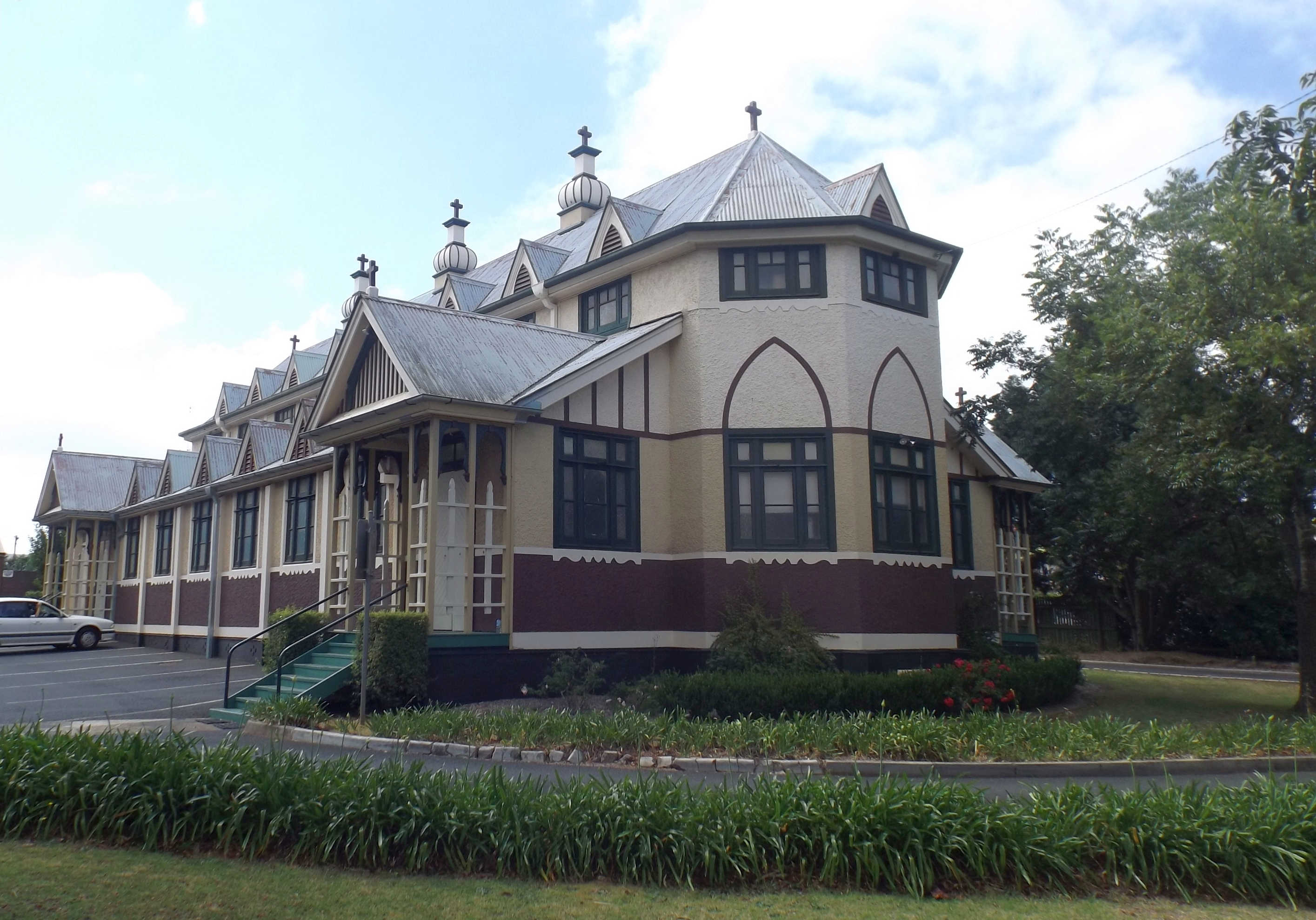 Photo of St Luke's Church Hall Toowoomba, Queensland, Australia.